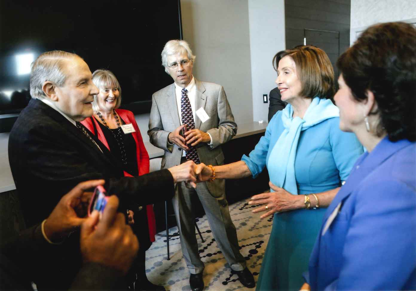 Depicted people: Jeffrey Alfred Legum and Nancy Pelosi